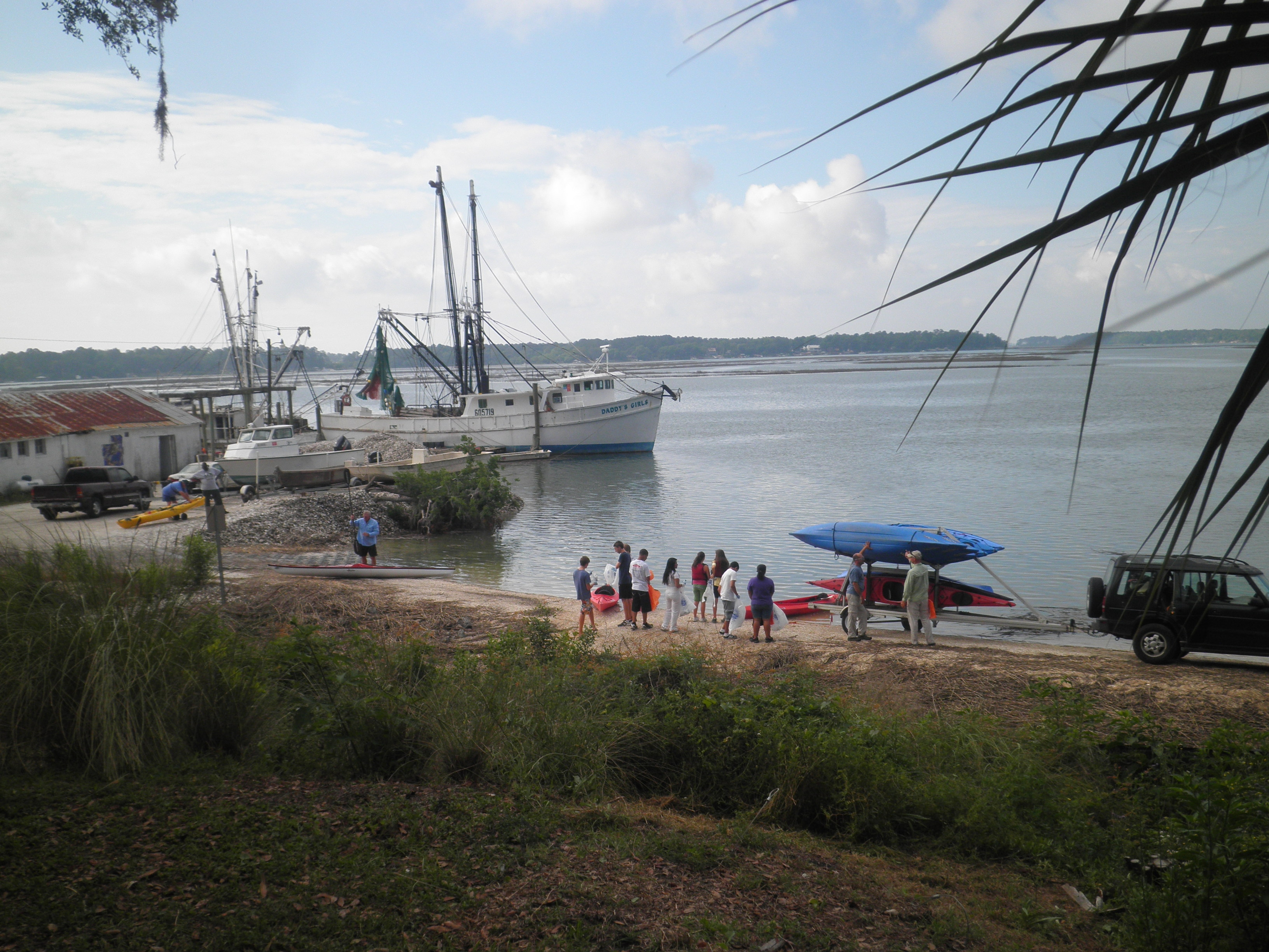 An effort to cleanup the May River, seen here at the Bluffton Oyster Company